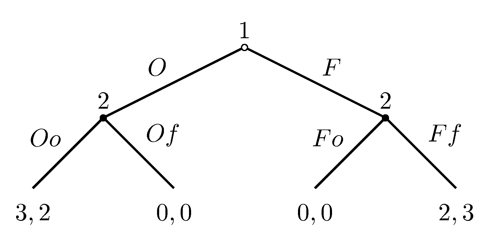 An extensive form representation of a battle of the sexes game with perfect information